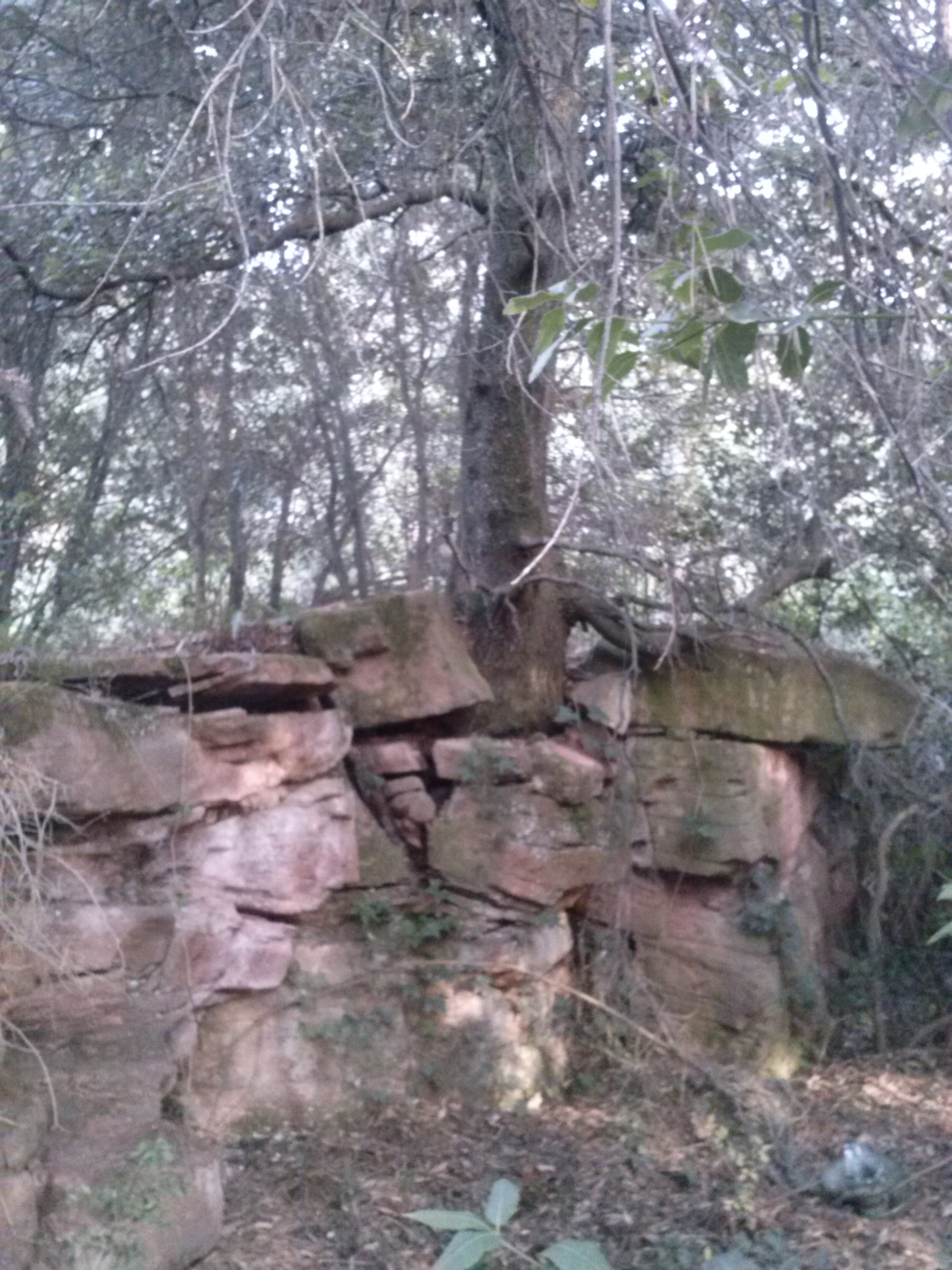 Les Casetes del Congost, Tagamanent (Catalonia)